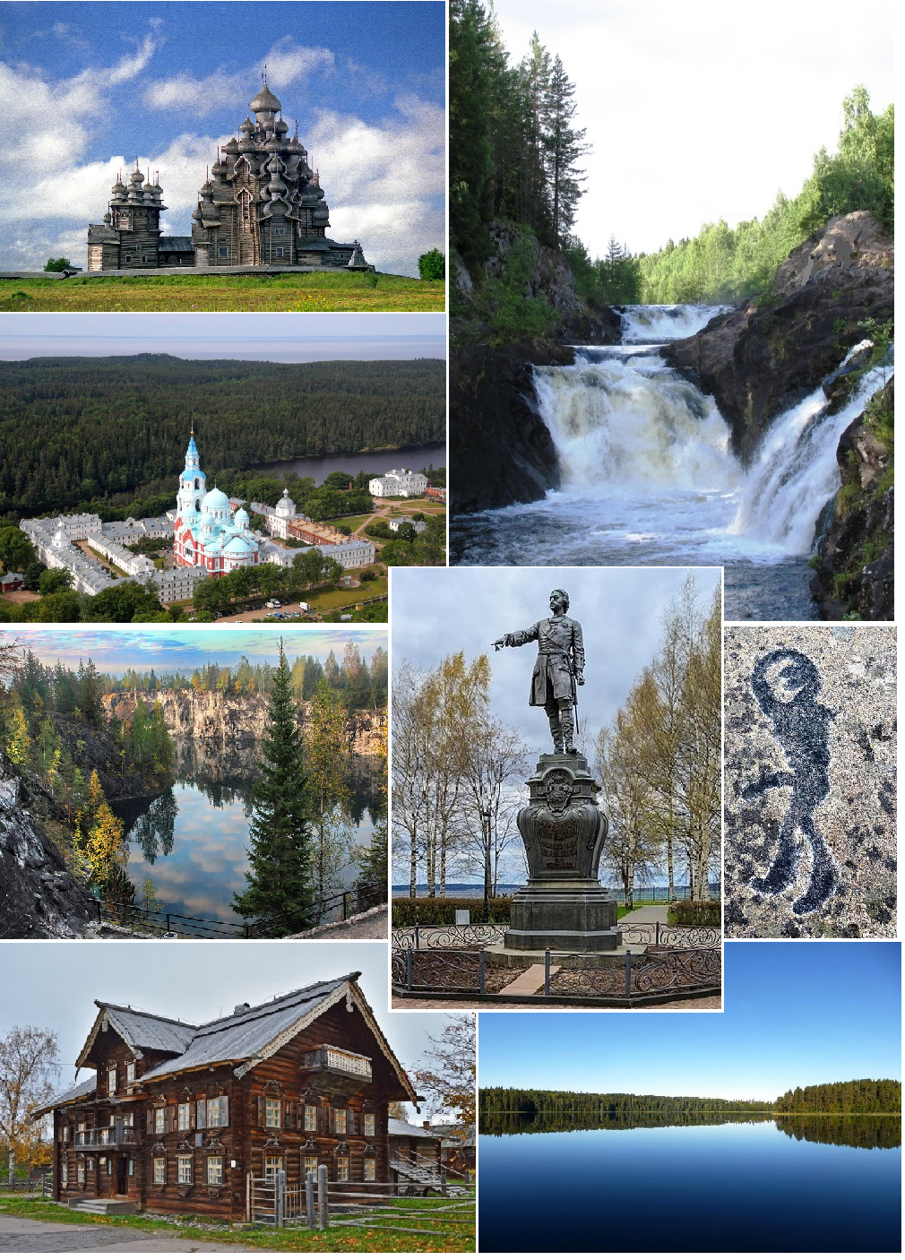 Collage for an article about the Republic of Karelia: Kizhi Pogost Kivach Falls Valaam Monastery Ruskeala Petrozavodsk Belomorsk Petroglyphs Lonin Museum of Veps Ethnography Lakes of Karelia